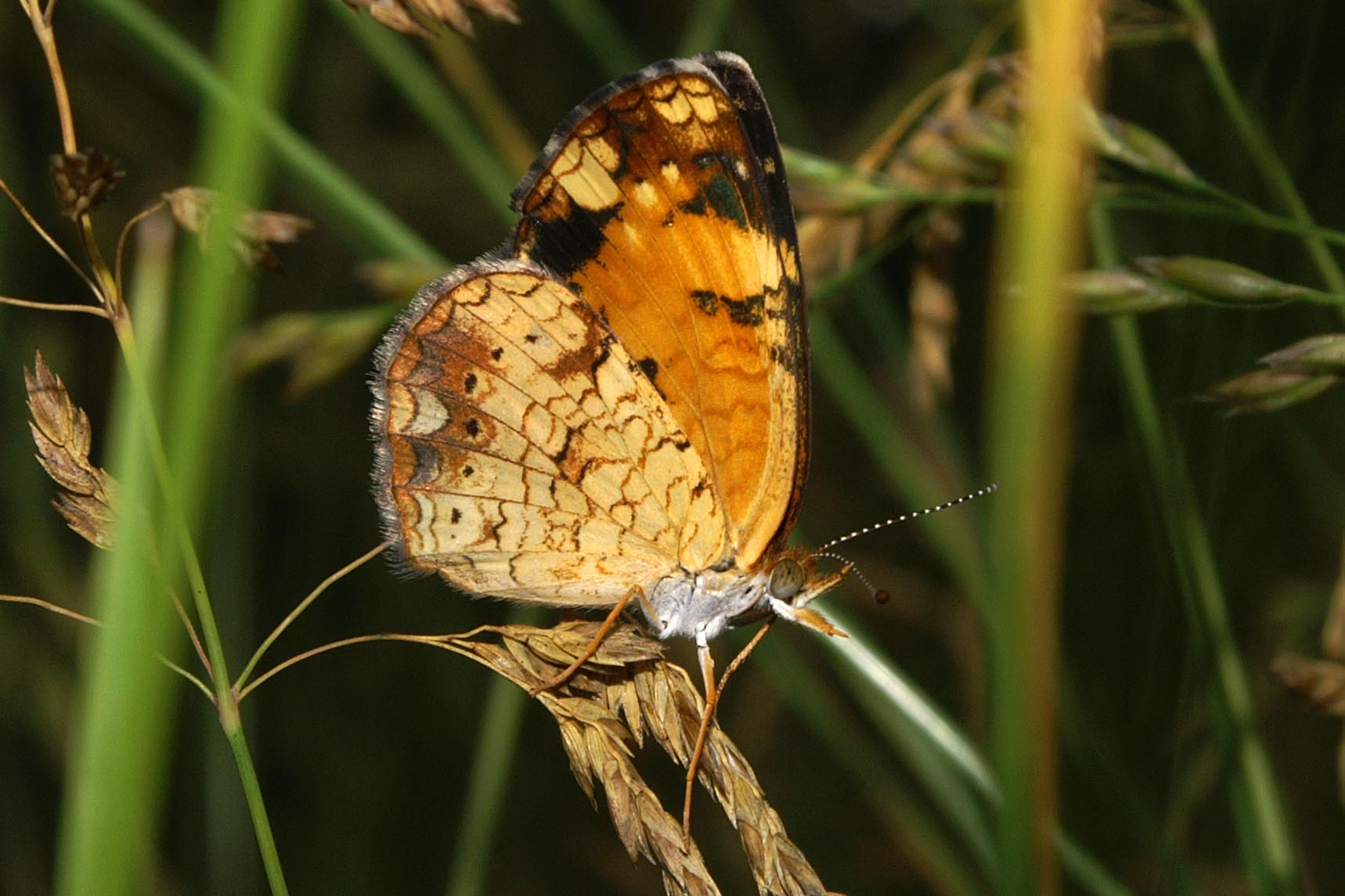 Ventral view of a Pearl Crescent butterfly. Taken by Kenneth Dwain Harrelson on June 1st, 2007.